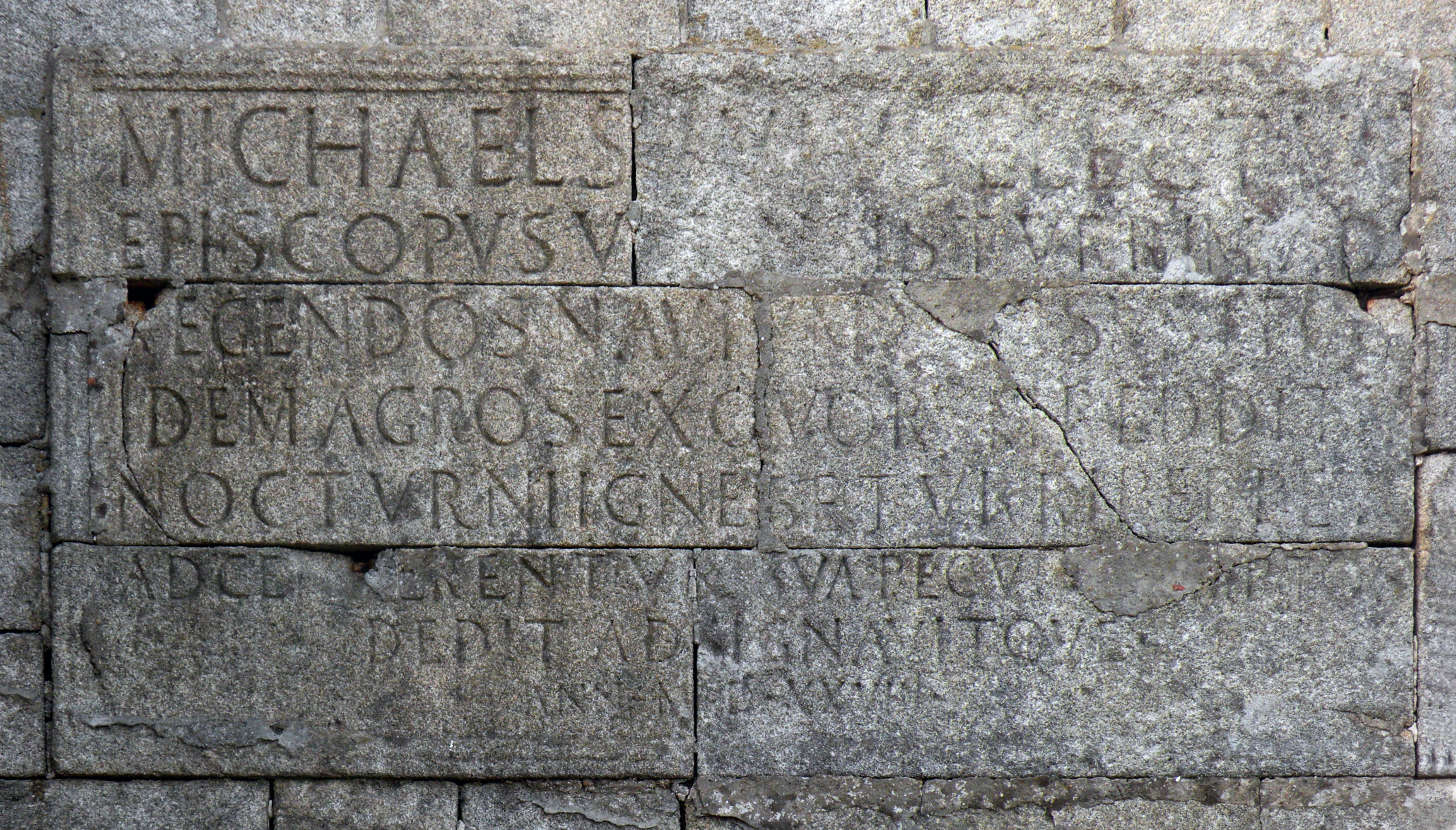 Inscription in the Tower, Lighthouse, Chapel, Hermitage of São Miguel-O-Anjo, in Foz do Douro, Oporto, Portugal.